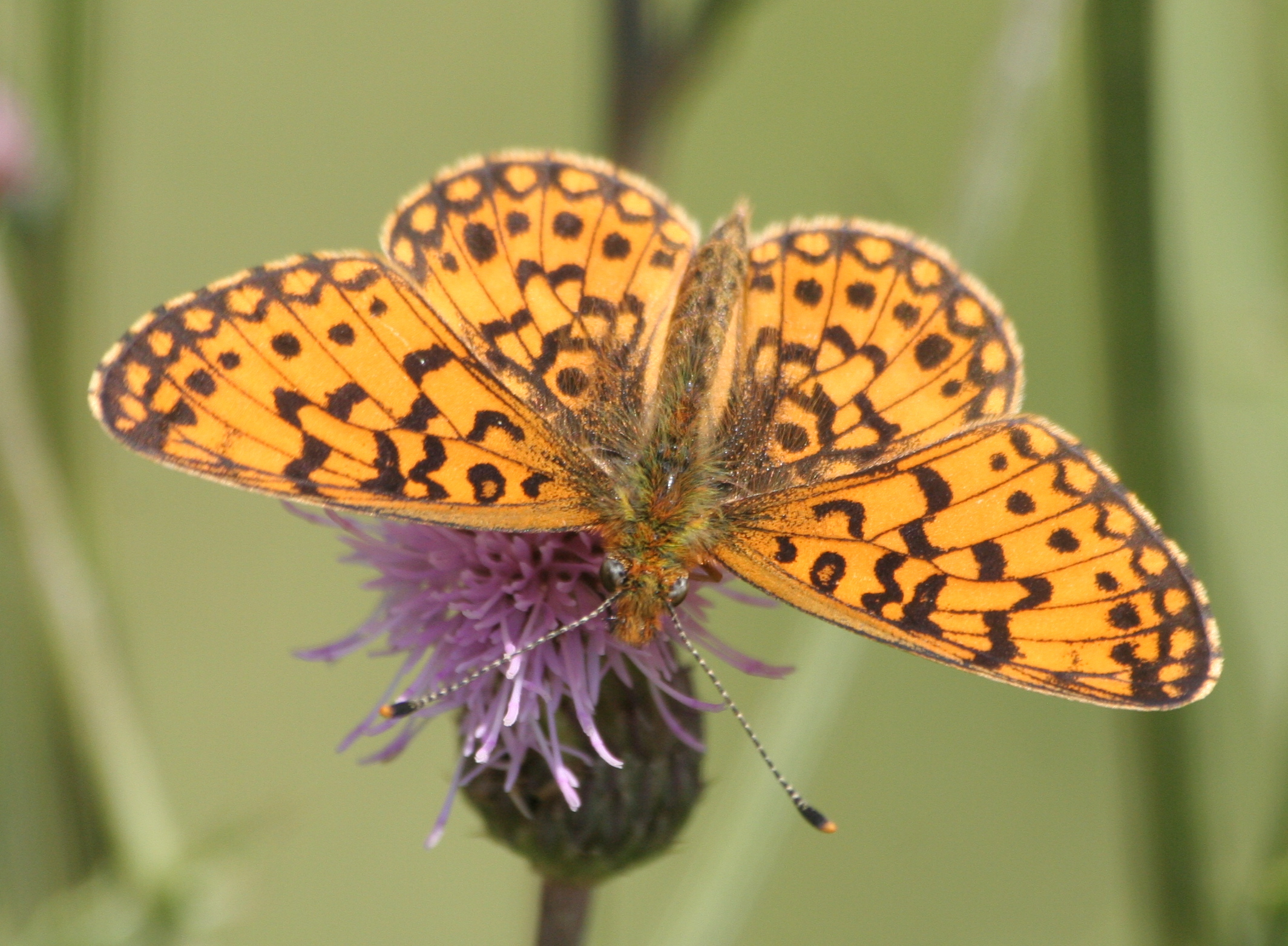 A fritillary, apparently Boloria selene, in a clearing in woods near Fürstenfeldbruck in Bavaria